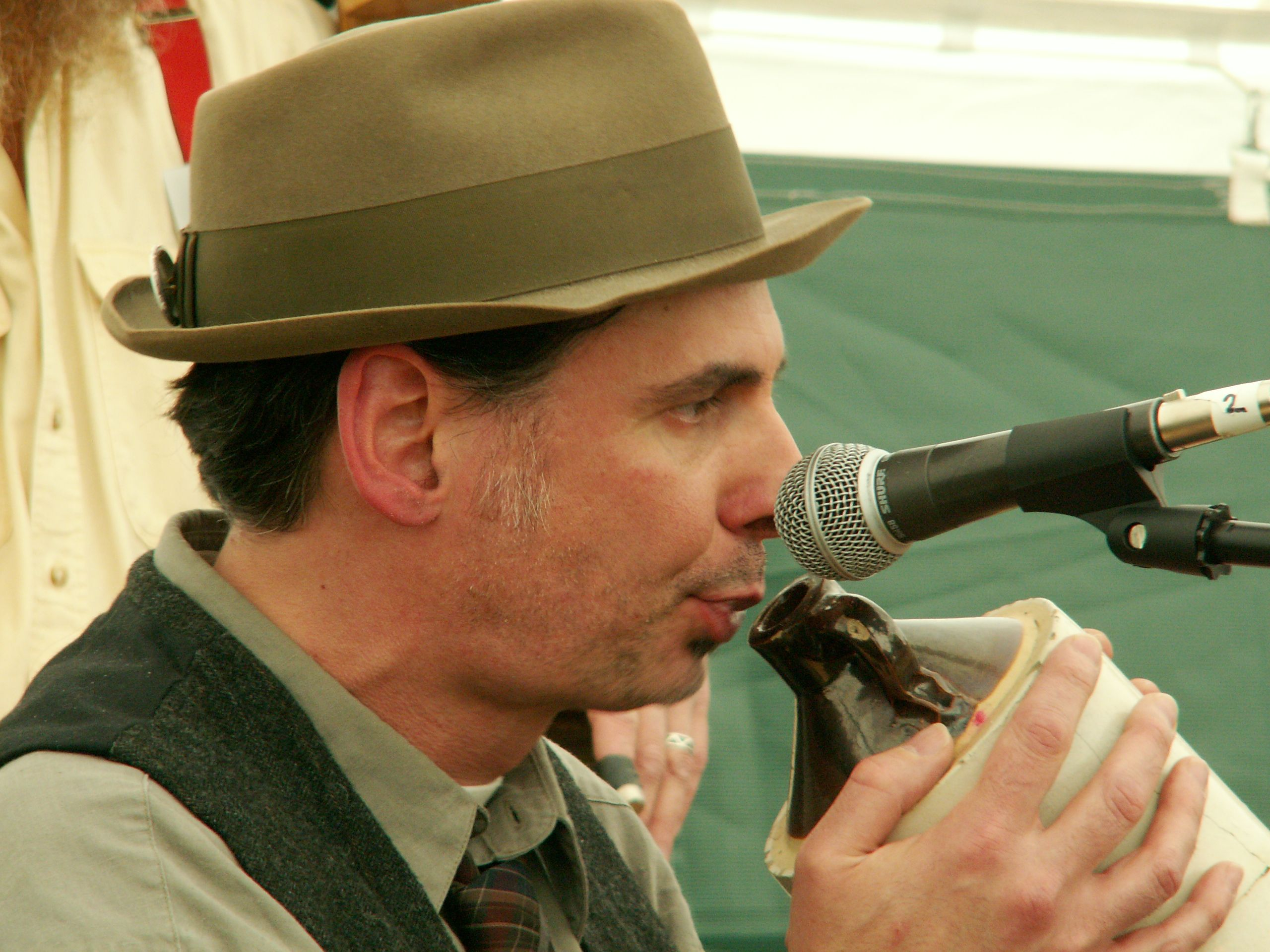 Closeup of a jug player playing his instrument (an earthenware jug). The jug player, Mark Sherepita, is a member of the Smokin' Fez Monkeys, a jug band based in Cleveland, Ohio, United States. Photo taken in Columbus, Ohio, United States, with a Konica Minolta DiMAGE Z5 digital camera.